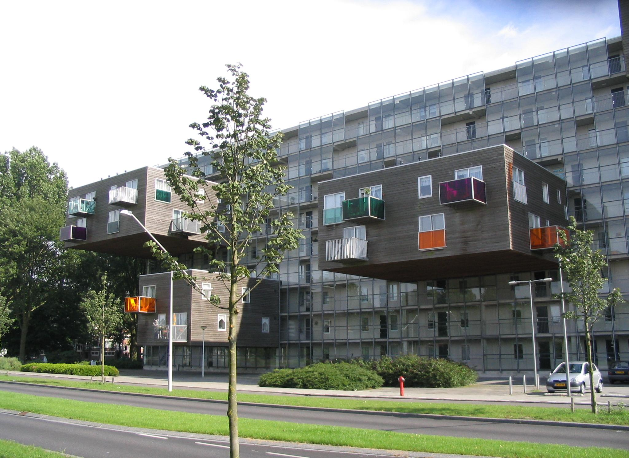 The WOZOCO housing complex in Amsterdam (The Netherlands) designed by architects MVRDV.